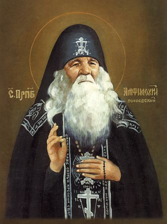 Saint Amphilochios of Pochaev